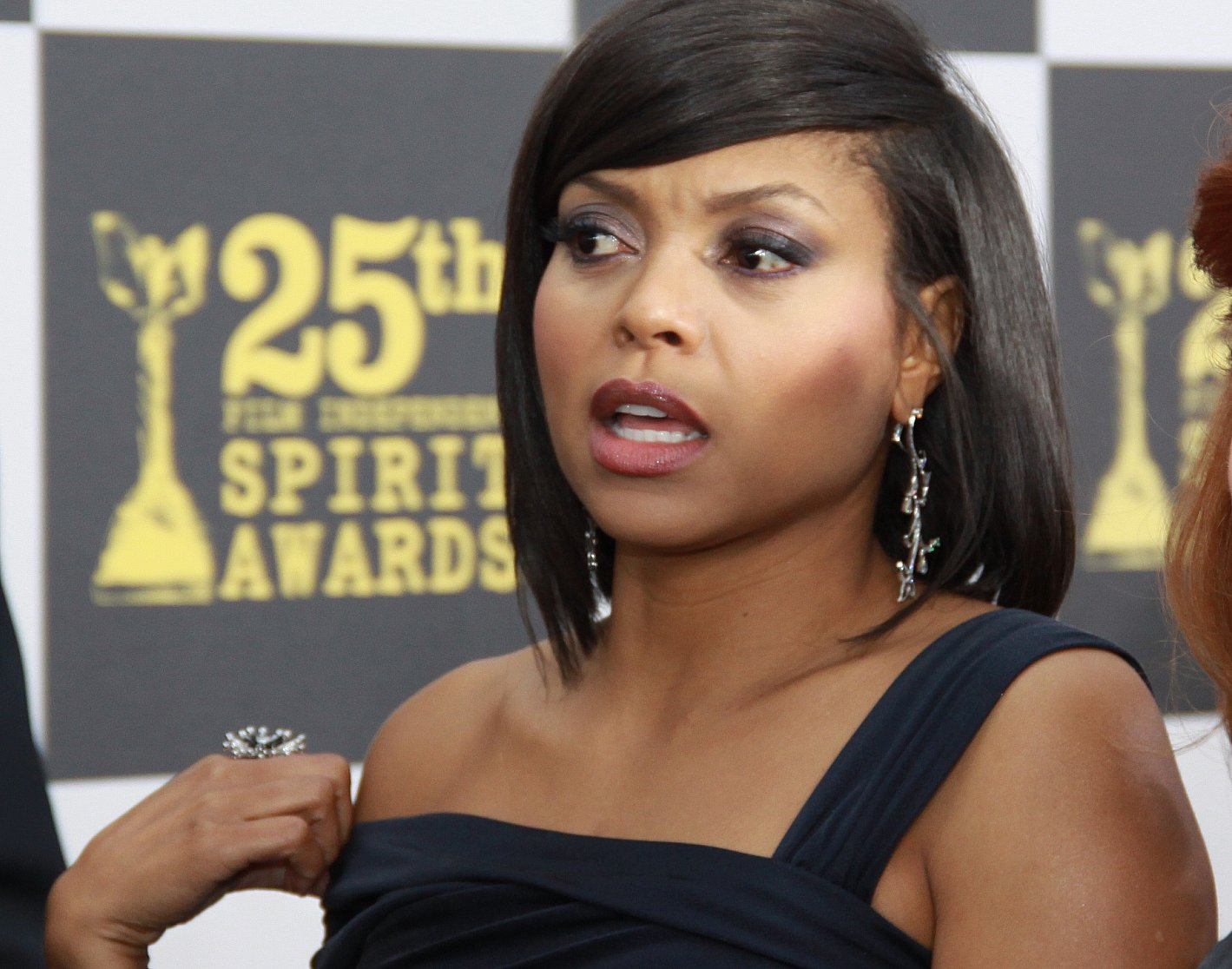 Taraji P. Henson at the Independent Spirit Awards in Los Angeles, March 5th, 2010.